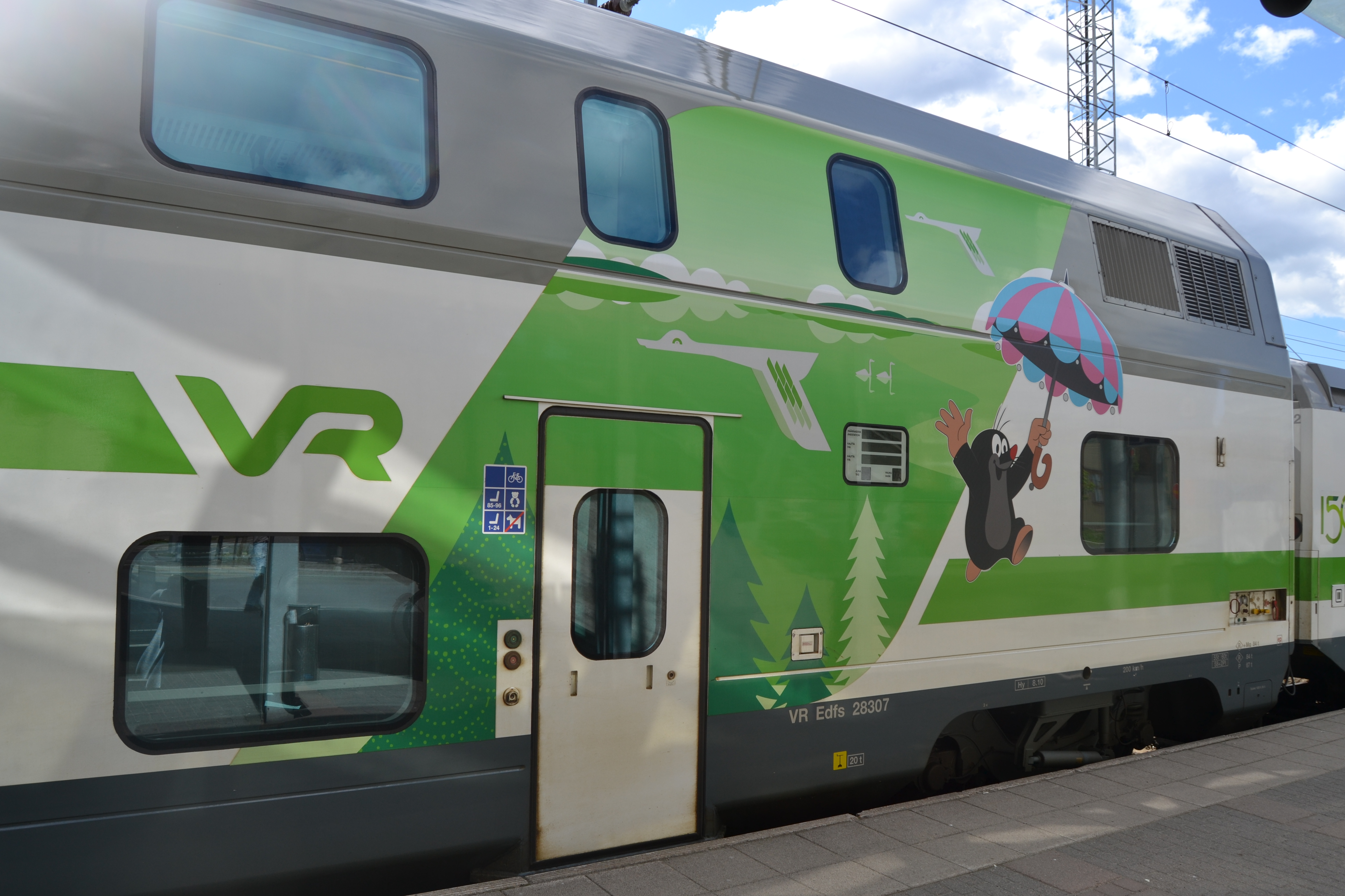 Edfs coach at Jyväskylä railway station